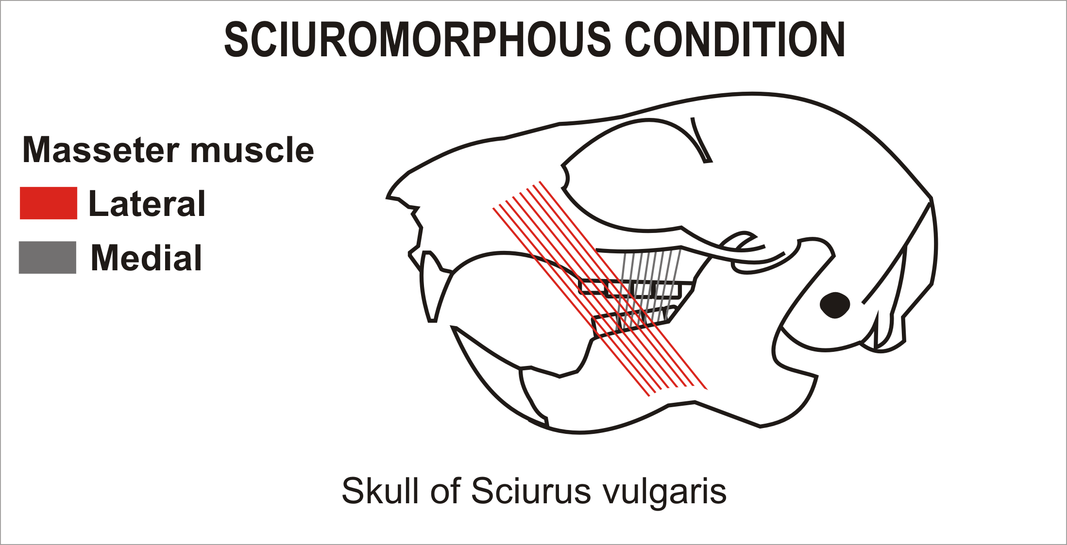 According to Romer, 1945